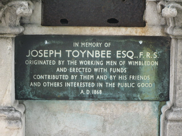 Plaque on the Joseph Toynbee FRS Memorial Fountain. See 897797.